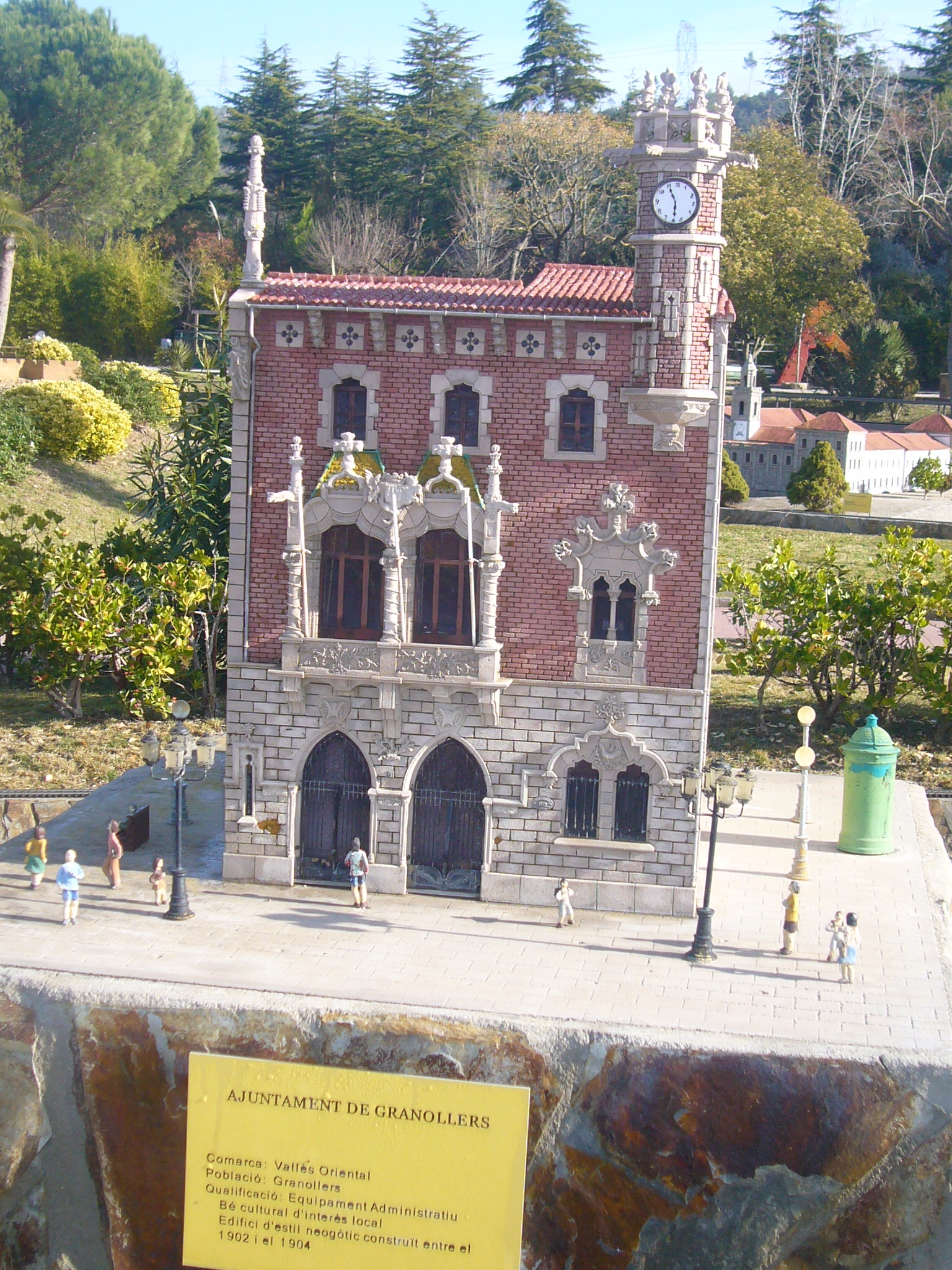 Scale model at the "Catalunya en Miniatura" miniature park : Granollers city hall